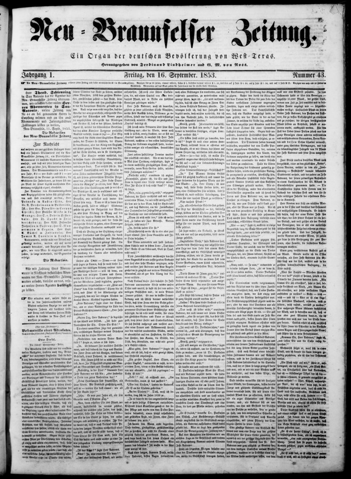 The New Braunfels Zeitung newspaper from September 16, 1853